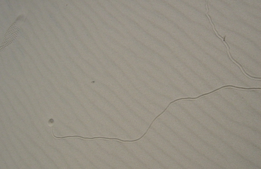 Antlion's trap and trace. Dune in Slowinski National Park. Poland.